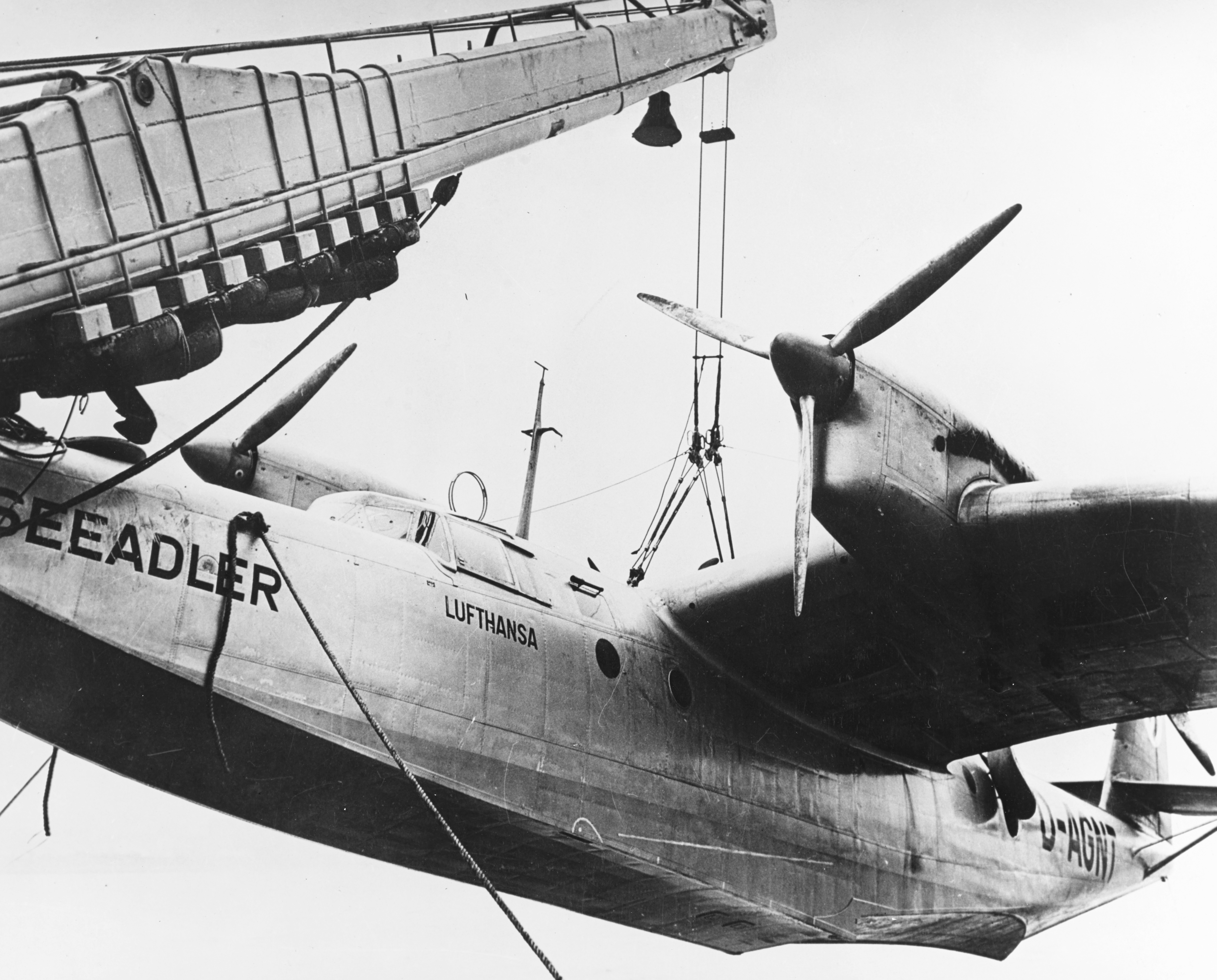 The German Luft Hansa Dornier Do 26 V1 "Seeadler" (D-AGNT) being lifted on a catapult ship in the South Atlantic, in 1938-1939. It was later destroyed by RAF Hawker Hurricanes of No. 46 Squadron in Rombaksfjord, Norway, on 28 May 1940.